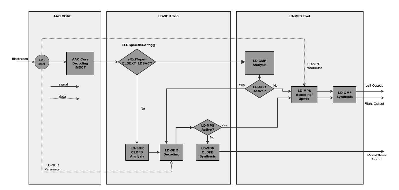 Block diagram of AAC-ELD v2 Decoder